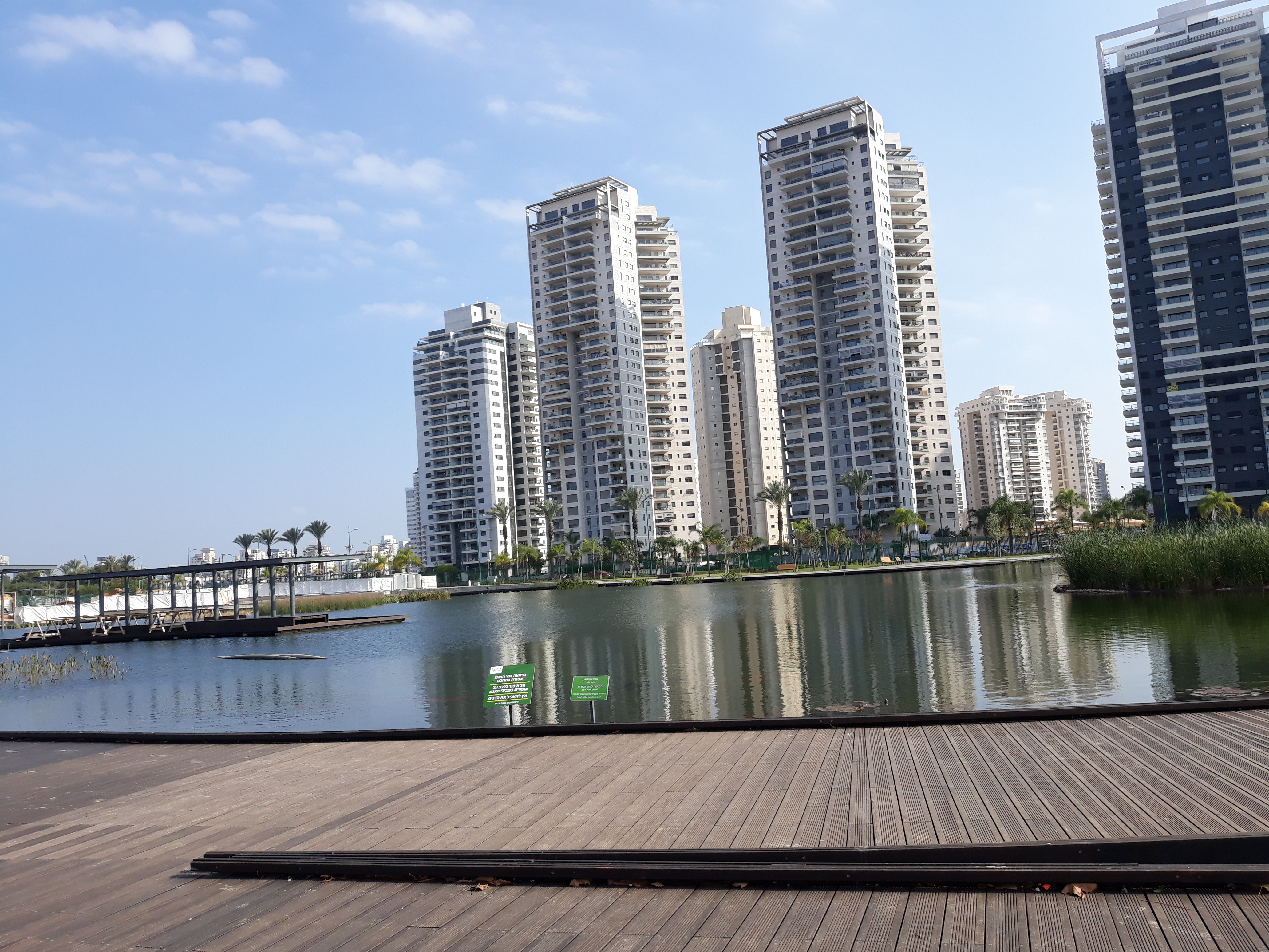 The Ecological lake in Petah Tikva Park.